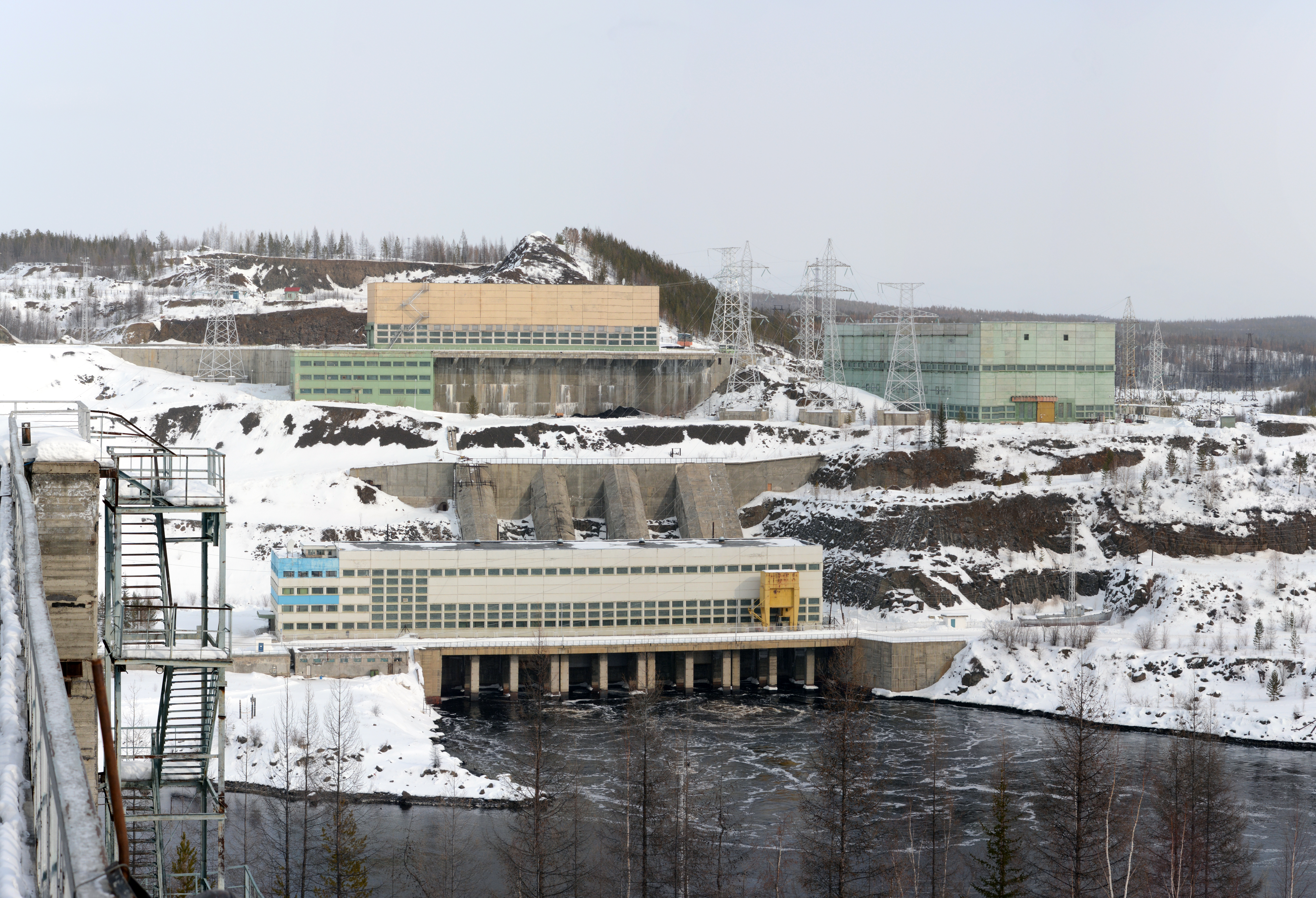 Vilyuy Hydroelectric Station - 2. Vilyuy River, Sakha (Yakutia) Republic, Russia